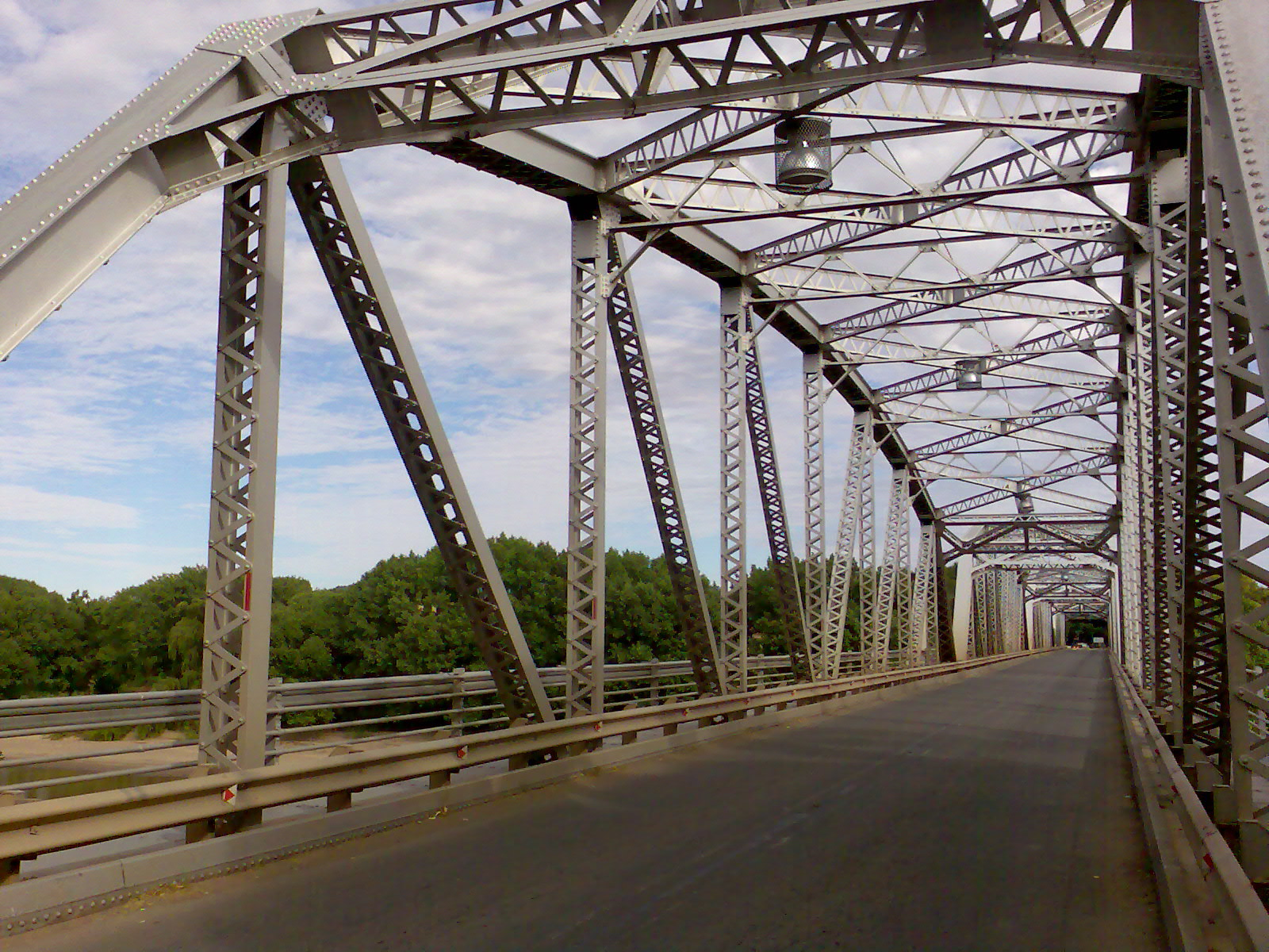 General Hertzog Bridge over Orange River at Aliwal North, Eastern Cape. The bridge consists of four simply supported trusses with extensive use of rivets to brace and connect members.